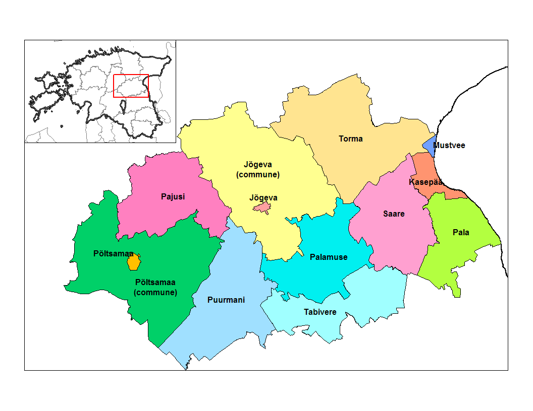 Map of the municipalities of Jogeva county in Estonia. Created by Rarelibra 17:33, 22 December 2006 (UTC) for public domain use, using MapInfo Professional v8.5 and various mapping resources.